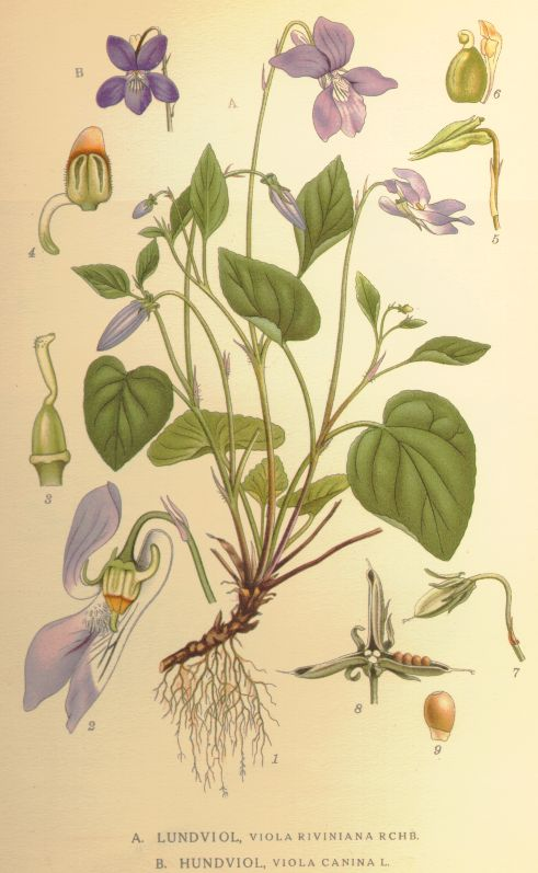 Viola riviniana (A) and Viola canina (B)